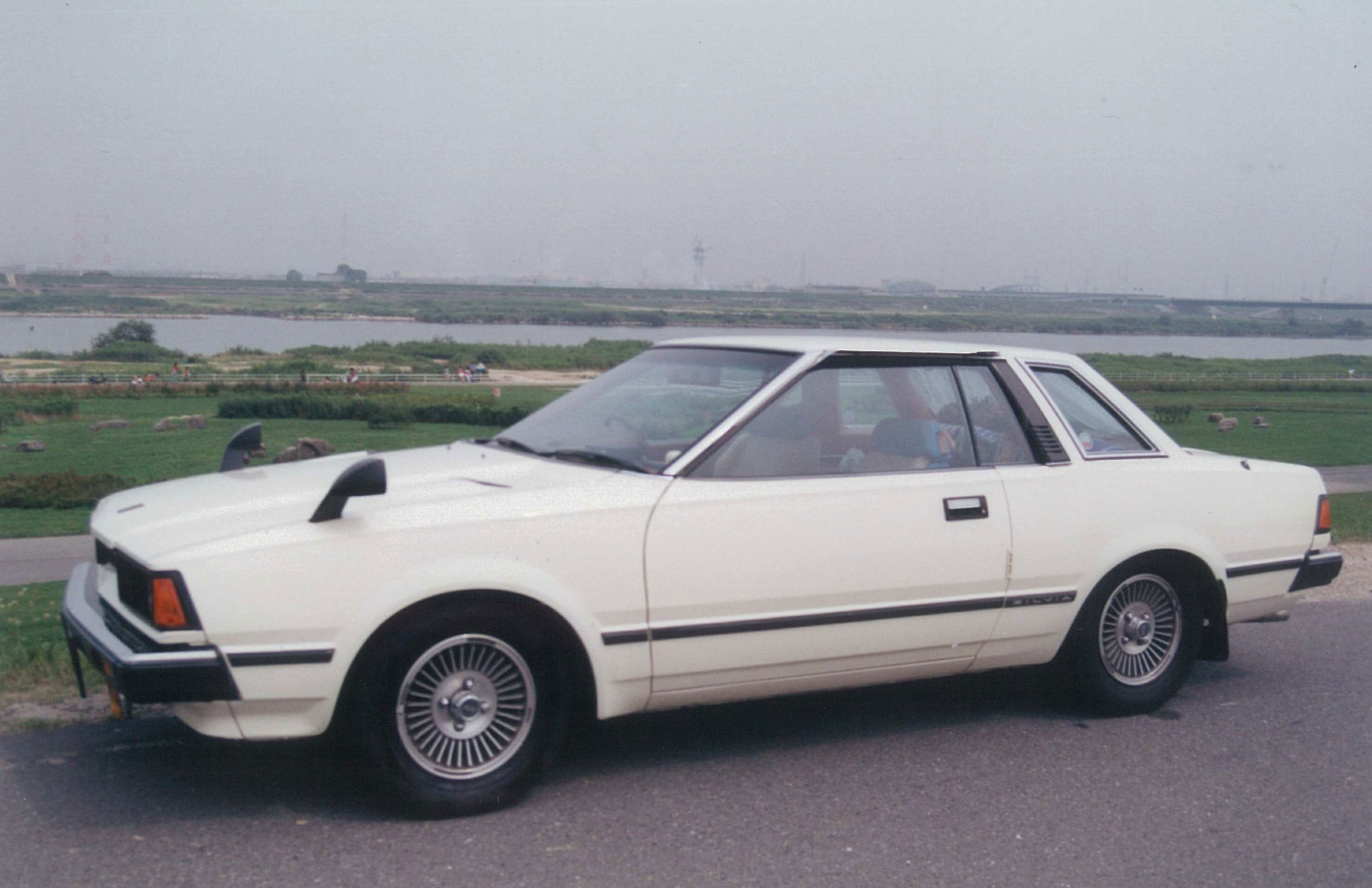 It is My Car which it photographed in Osaka.